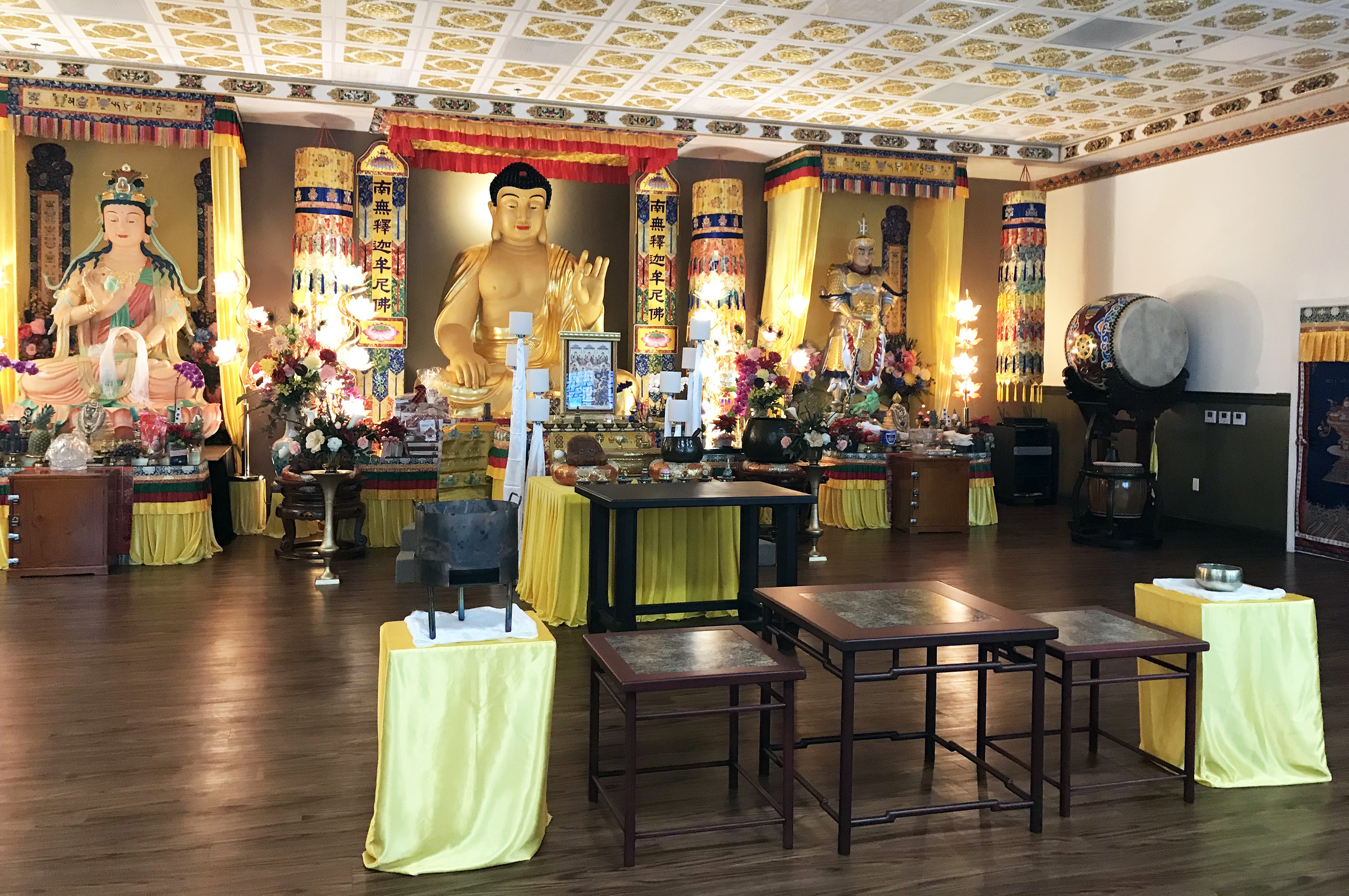 The Mahavira Hall in Holy Miracles Temple, Pasadena, CA displays the Holy Dharma Instruments used in a "Holy Fire-Offering Dharma Assembly".